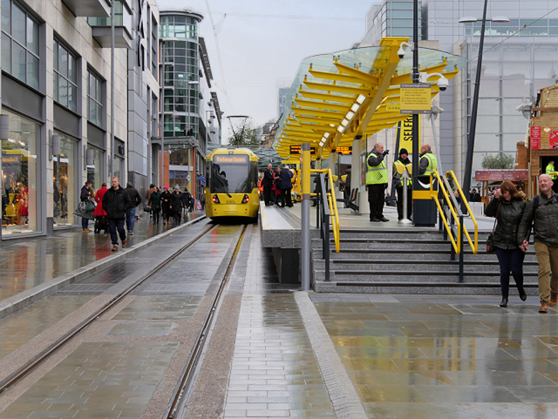 New Metrolink Stop at Exchange Square The first Metrolink services pulled into the new Exchange Square tram stop in Manchester city centre on Sunday, 6 December 2015. Exchange Square stop is the 93rd and newest stop on the Metrolink network. The new stop is on Corporation Street between Exchange Square and the Manchester Arndale. It in the heart of the busy shopping and leisure district, providing easy access to shops, bars, restaurants and entertainment venues, including Manchester Arndale, the Corn Exchange and The Printworks, the Medieval Quarter and the National Football Museum and (during December) the Christmas Markets.. This area is now pedestrianised with no access to traffic between Withy Grove and Market Street/St Mary’s Gate. The new stop has a modern design making the most of limited space in Exchange Square while keeping plenty of room for pedestrians. The striking pavilion style stop has an ‘island’ platform, brightly coloured steel and glass shelter and unique ‘floating’ overlapping glazed roof panels. On-stop ‘furniture’ such as passenger information displays and seating, has been integrated into polished concrete columns to give the stop a clean, uncluttered design. The step-free ramped access to Exchange Square is located at the southern end of the stop near to the bottom of the Manchester Arndale steps. The Exchange Square stop marks the first stage of the Metrolink Second City Crossing through the heart of the city. Construction work started on the 0.6km stretch of line between Victoria Station and Exchange Square in summer 2014 following utility diversions. The initial services will operate during peak operational hours only, with trams running to Shaw and Crompton on weekdays and Rochdale Town Centre on Sundays (LinkExternal link Metrolink Transformation Information). It is anticipated that it will change to a full service in spring 2016.